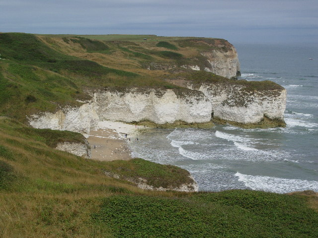 Flamborough Head, Flamborough, East Riding of Yorkshire, England.Chalk Cliffs.